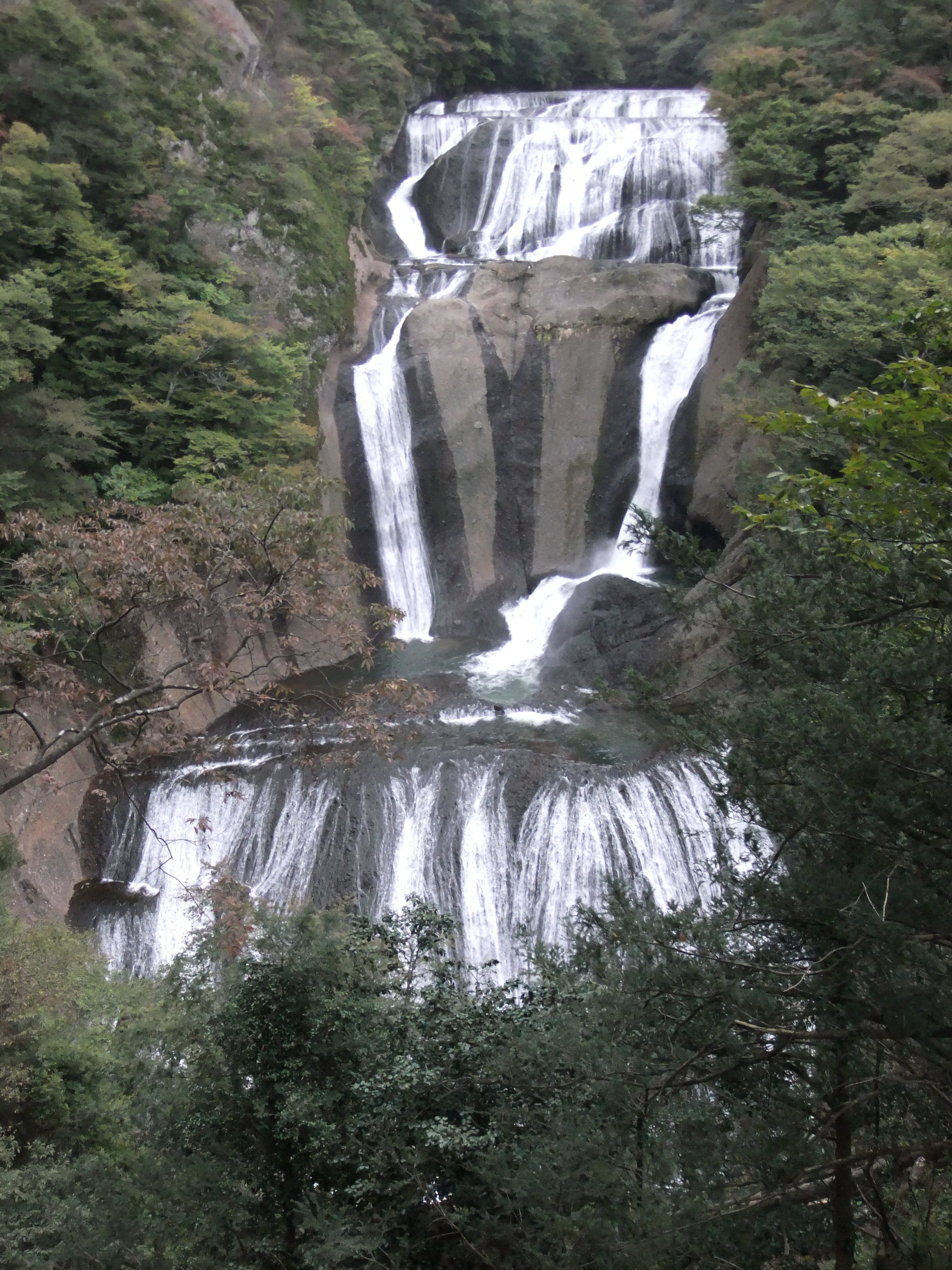 Fukuroda Falls in Daigo-machi, Ibaraki Prefecture.